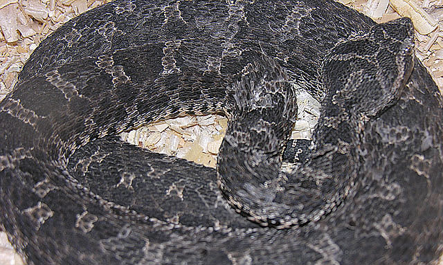 A Patagonian Pit Viper, locally Yarara Ñata, at the Centro Anaconda Serpentarium, Mendoza, Argentina. Venomous and endemic to Argentina.